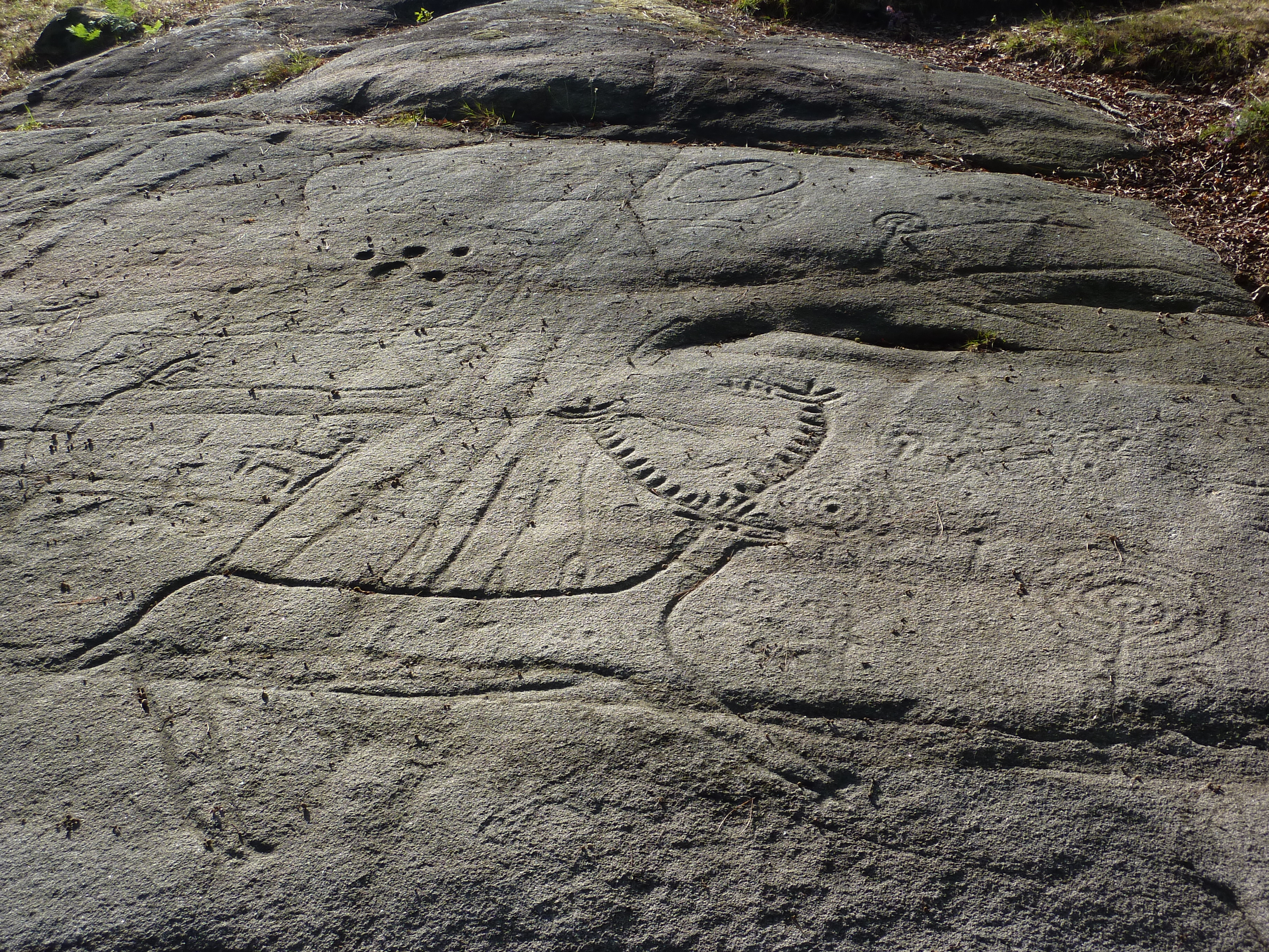 Laxe dos carballos petroglyph, in Campo Lameiro, Galicia (IV-II millemium BCE): Cup-and-ring mark and deer hunting scenes.